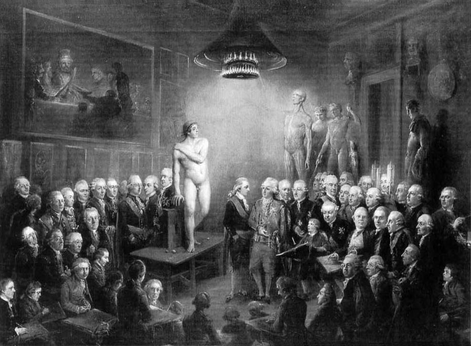 Gustav III's Visit to the Kunstakademi 1780 (Elias Martin, 1782)